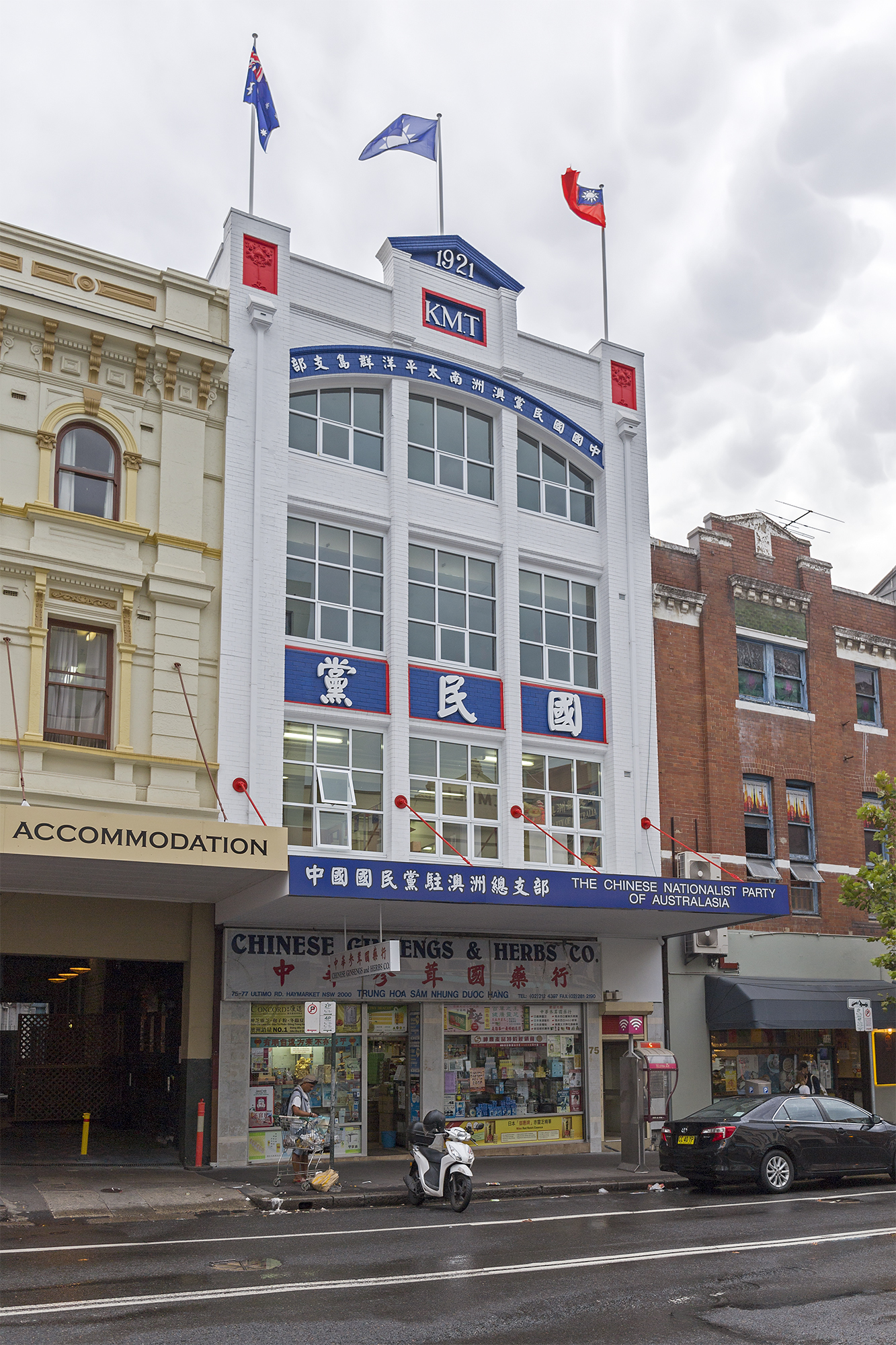 Chinese Nationalist Party of Australia building Ultimo Rd in Sydney